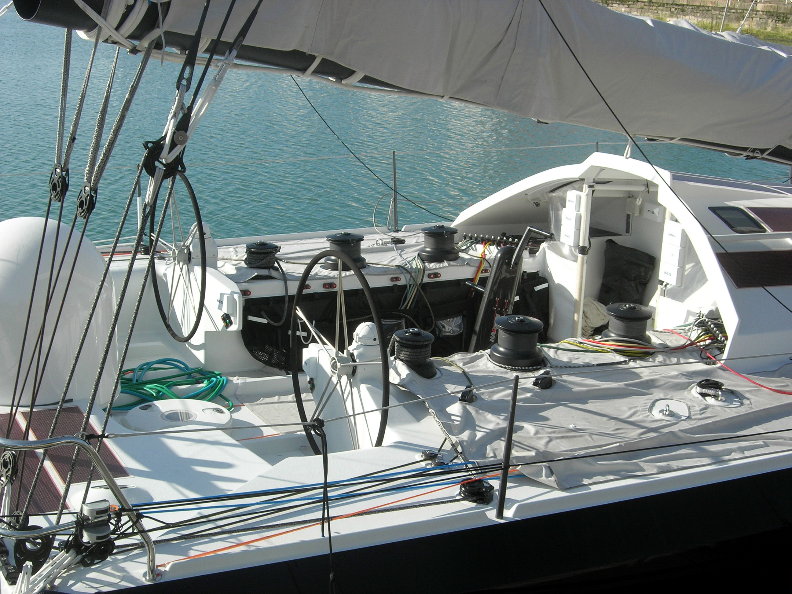 Description =Temenos dans le port de la Rochelle Source =Photo taken by Remi Jouan Date =Octobre 2006 Author =Remi Jouan